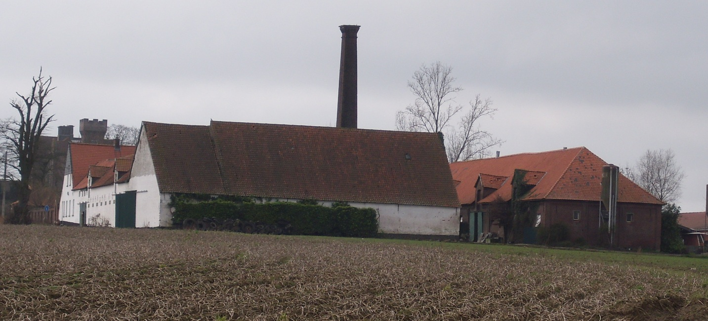 Hof te Wolfskerke - Wolfskerke - Opbrakel - Brakel - Oost-Vlaanderen - Vlaams Gewest - België